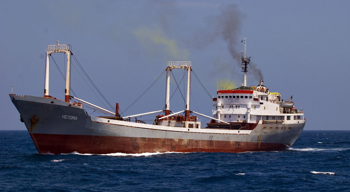 General cargo vessel Victoria, making way though waves. At the time of this photo, she was chartered by the United Nations World Food Programme to deliver food in Somalia Information about Victoria may be found at IMO 7906203. A ship can change her name and flag state through time, but the IMO number remains the same through the hull's entire lifetime. Therefore, it's useful to identify a ship through her IMO number.